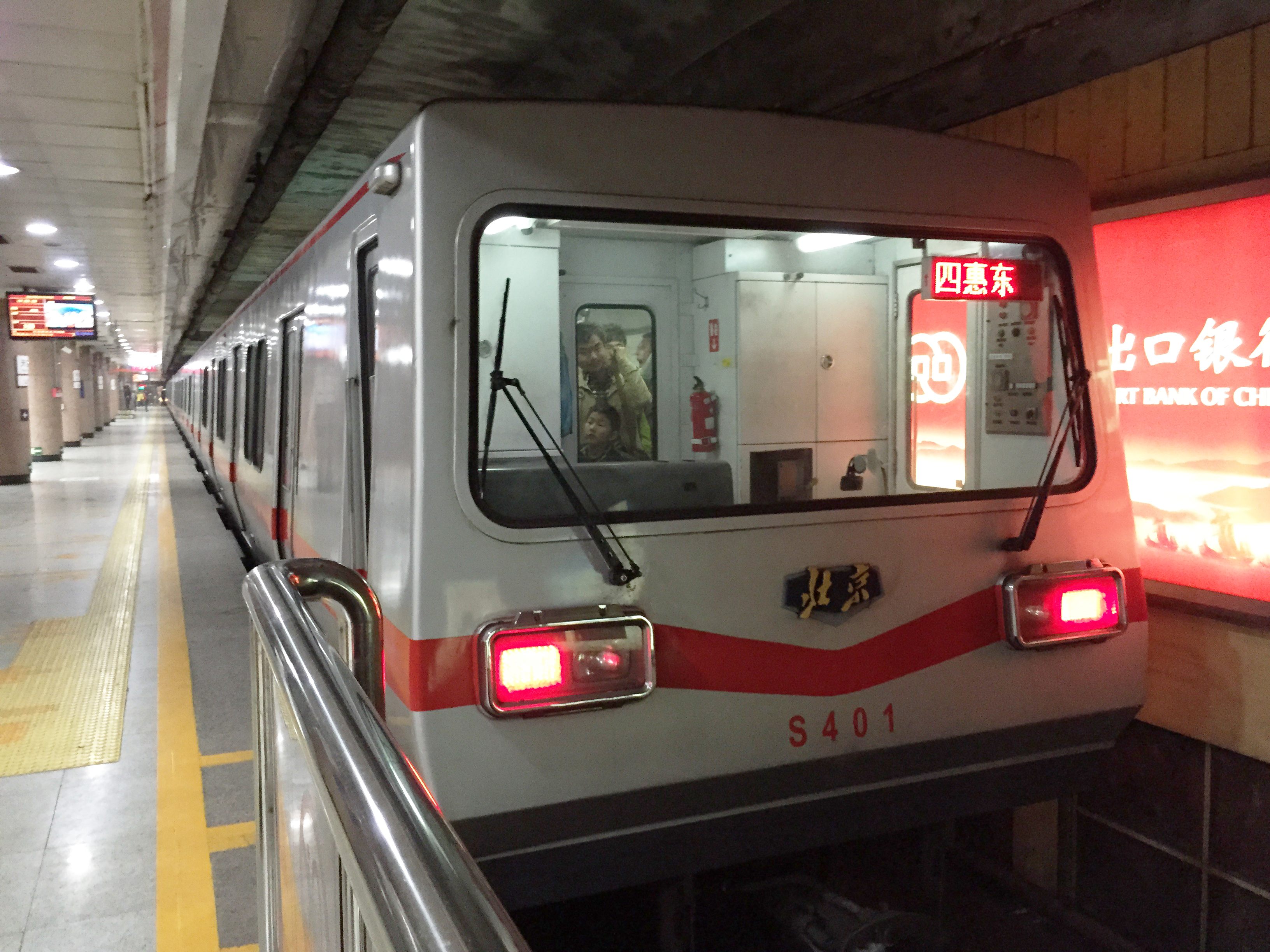 This is the prototype of DKZ4, with the old regn B401 (B stands for Bawangfen Depot, later Sihui Depot).